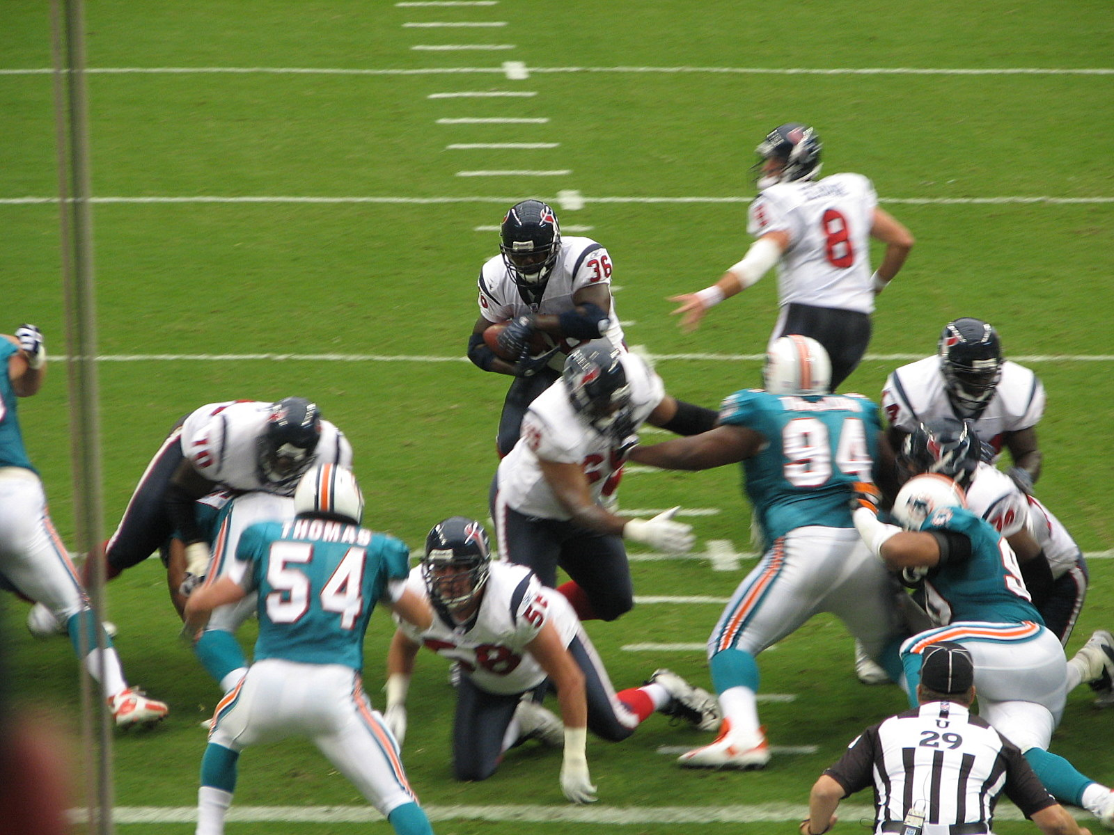 Schaub Hands off to Ron Dayne as the Houston Texans defeat the Miami Dolphins 22 to 19, Oct. 7, 2007